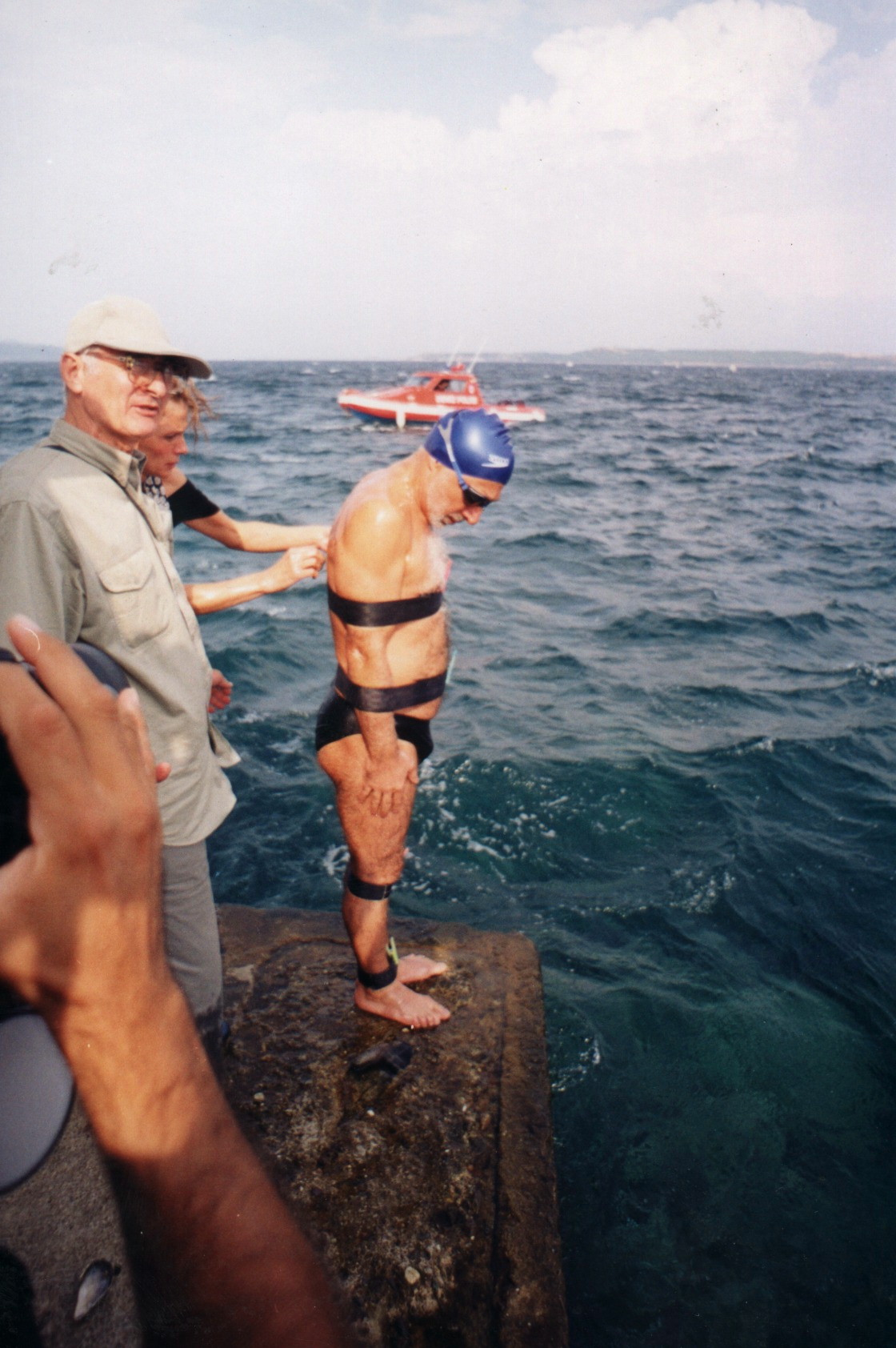 Start Henry Kuprashvili. strait Dardanelles. 2002.08.30